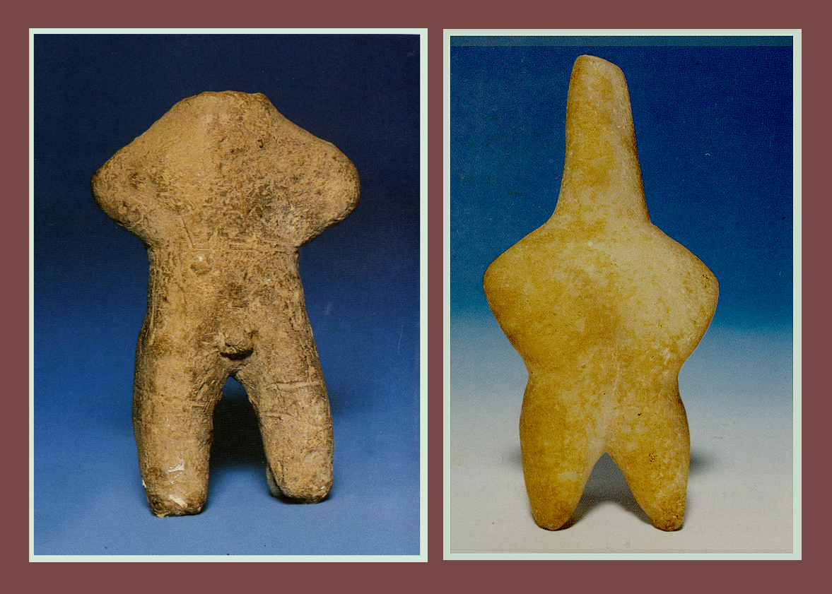 Fmale figurine, marble, 10. cm. Canhasan, 4500-4000 BC. Museum of Anatolian Civilization, Ankara)